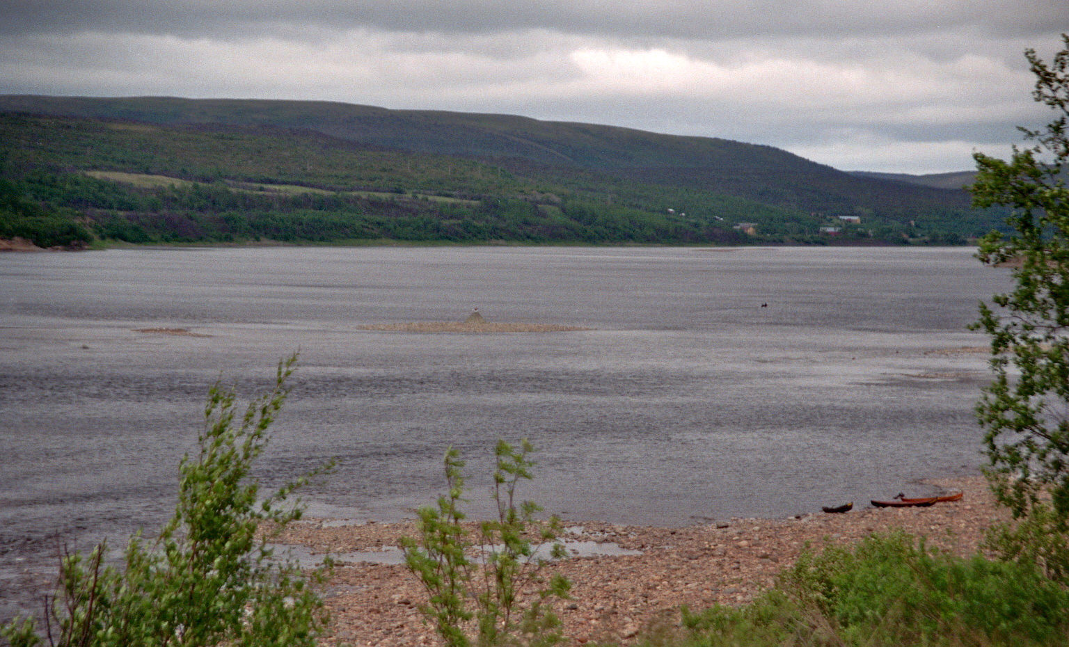 Tanaelva / Tenojoki between Finland and Norway